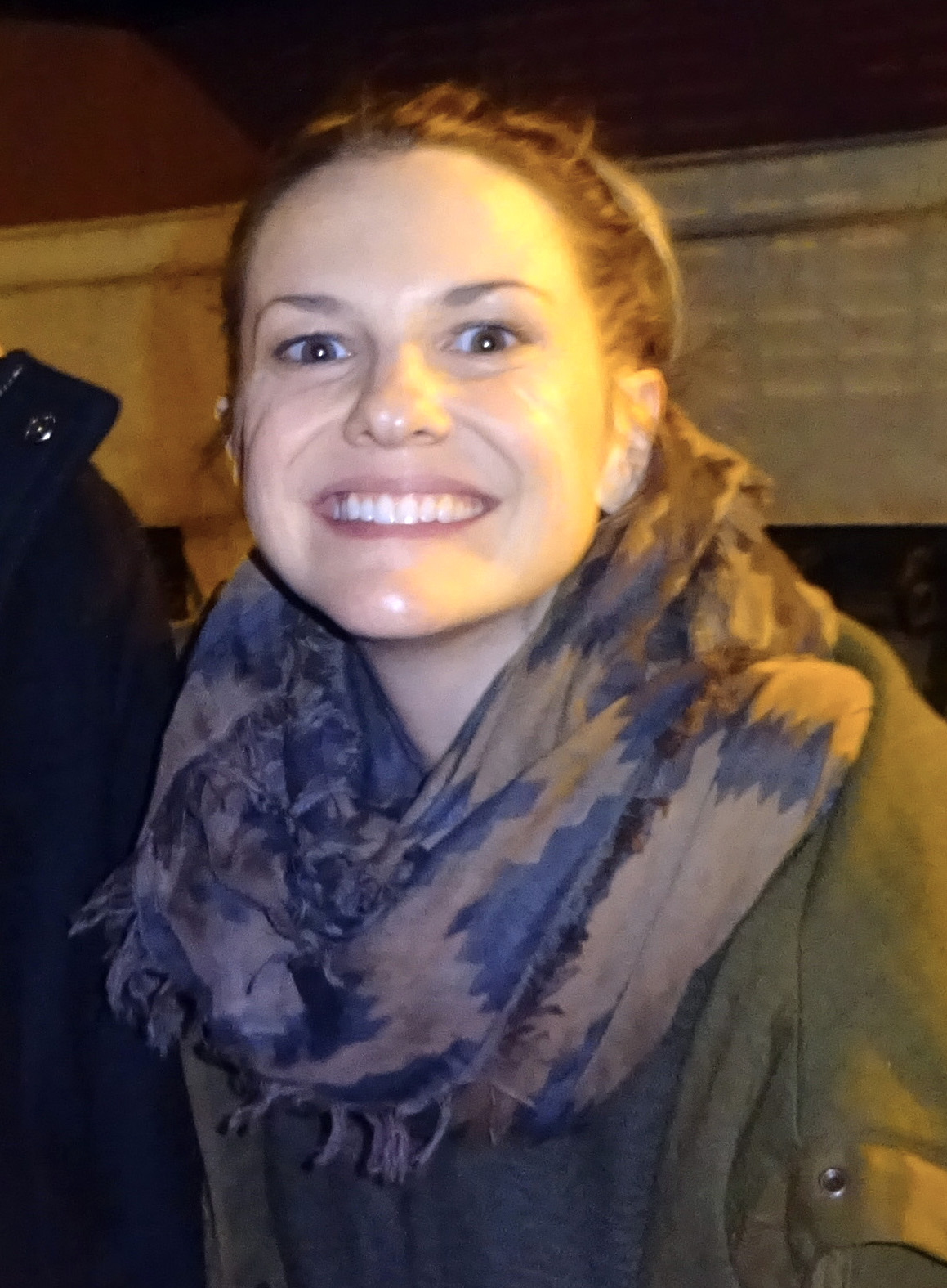 Larisa Oleynik, actress, in 2015